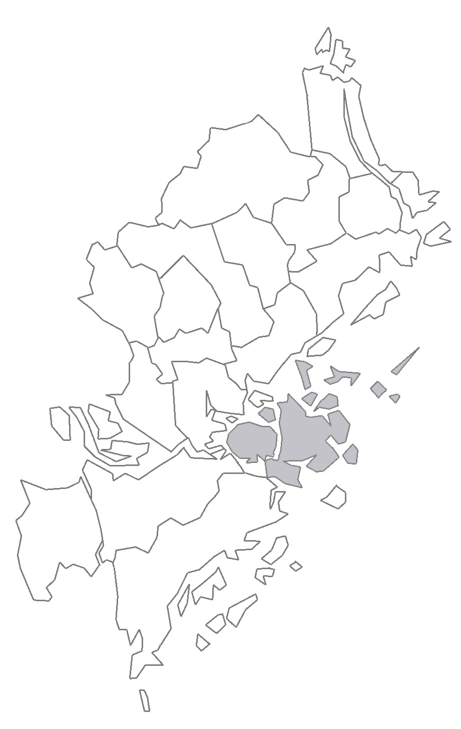 Map describing the location of Värmdö Ship District in Stockholm County, Sweden.